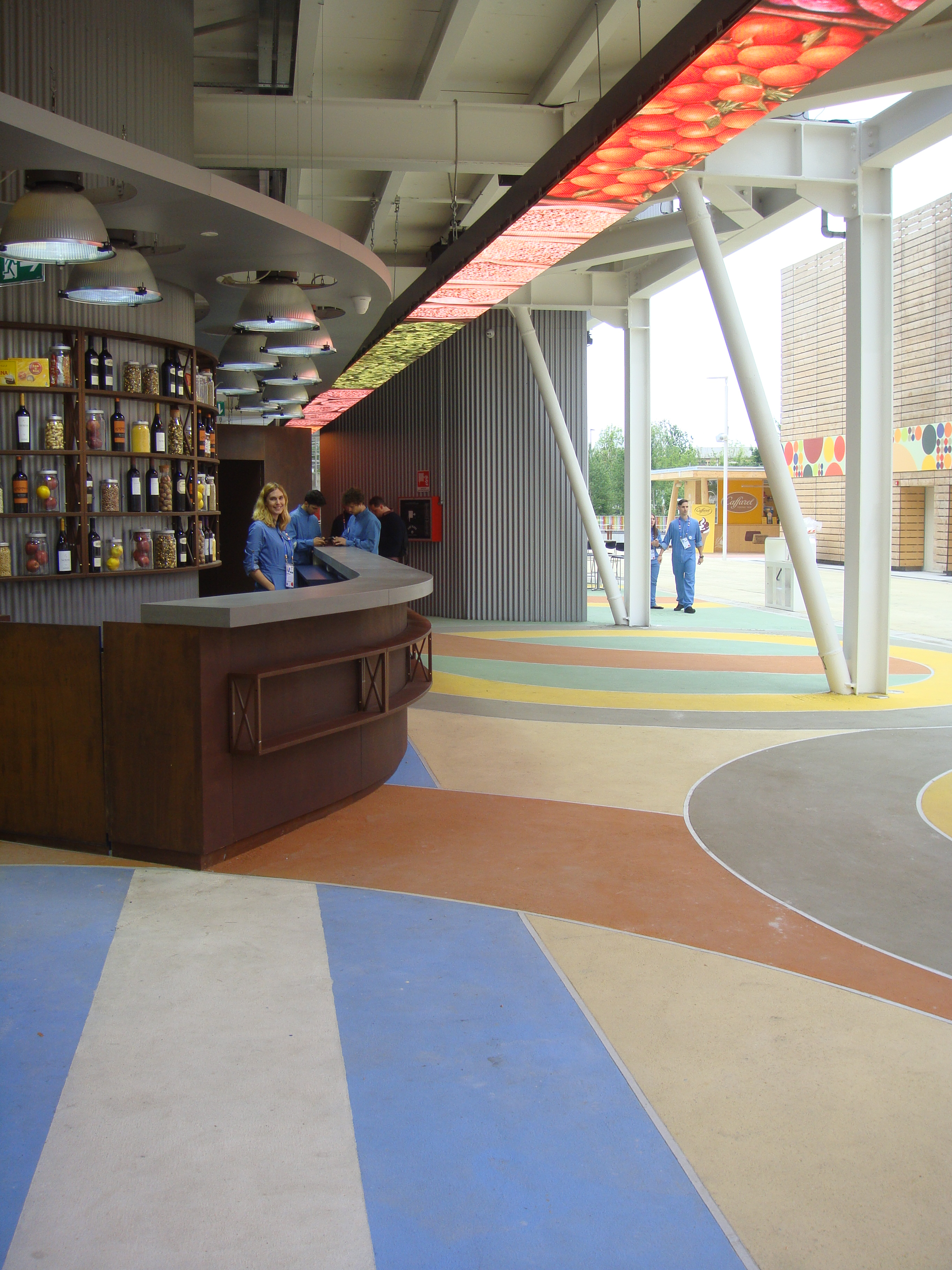 Argentina Pavilion, Expo 2015, Milan, Italy.